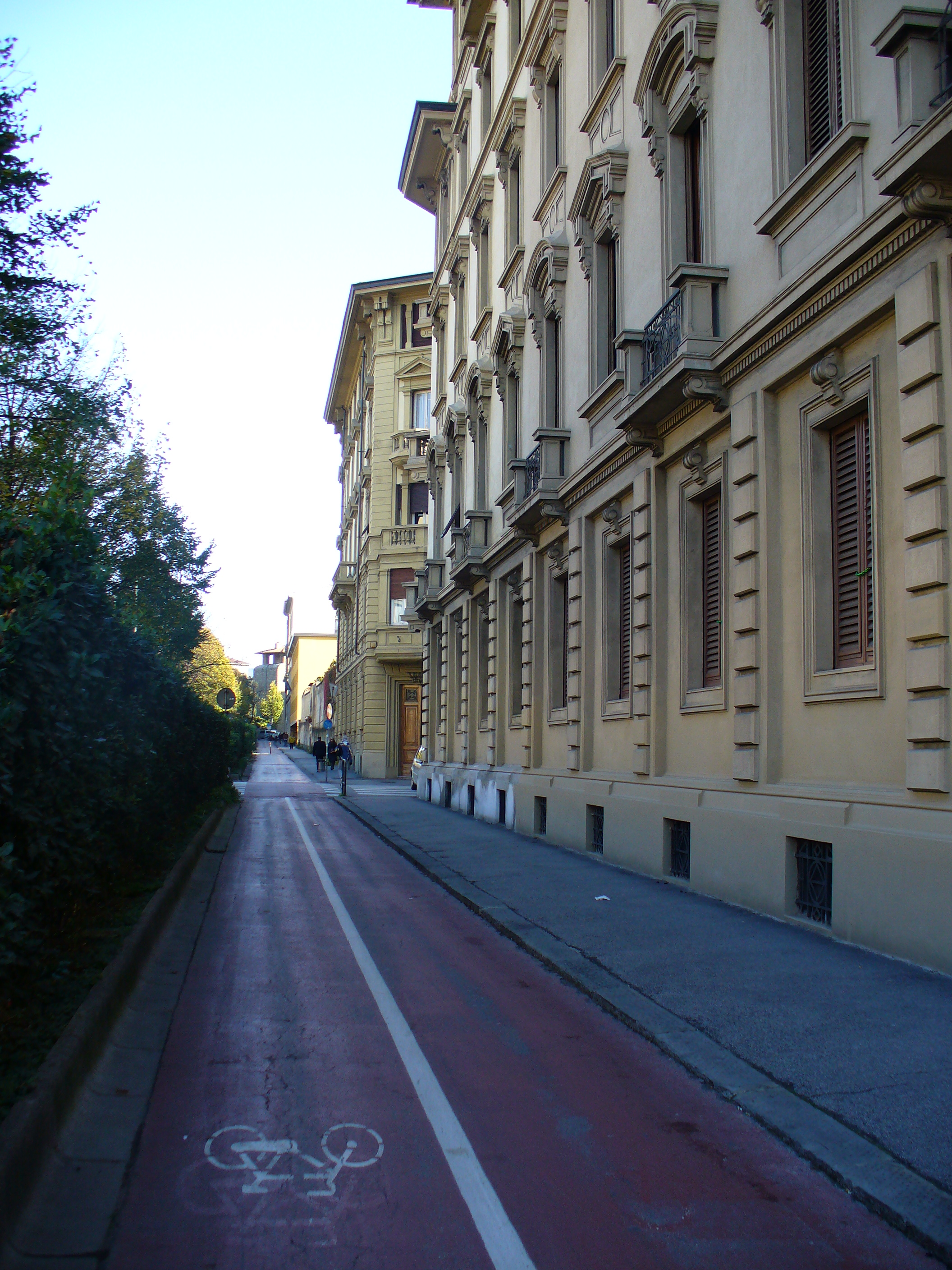 Viale Spartaco Lavagnini (Firenze)